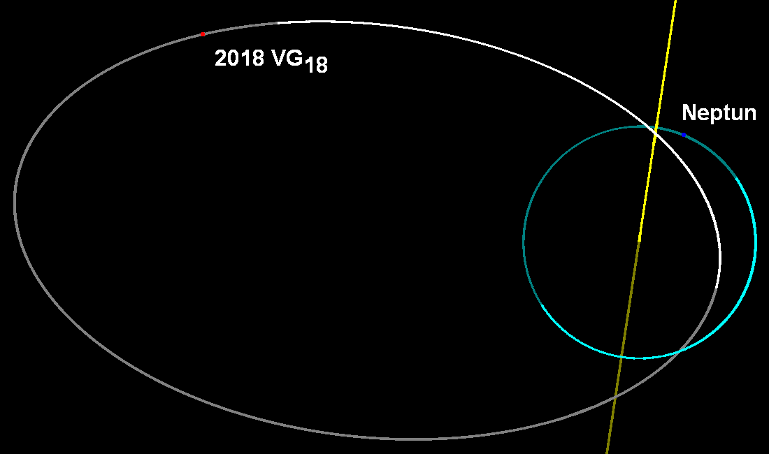 Orbit of asteroid 2018 VG18 and neptune